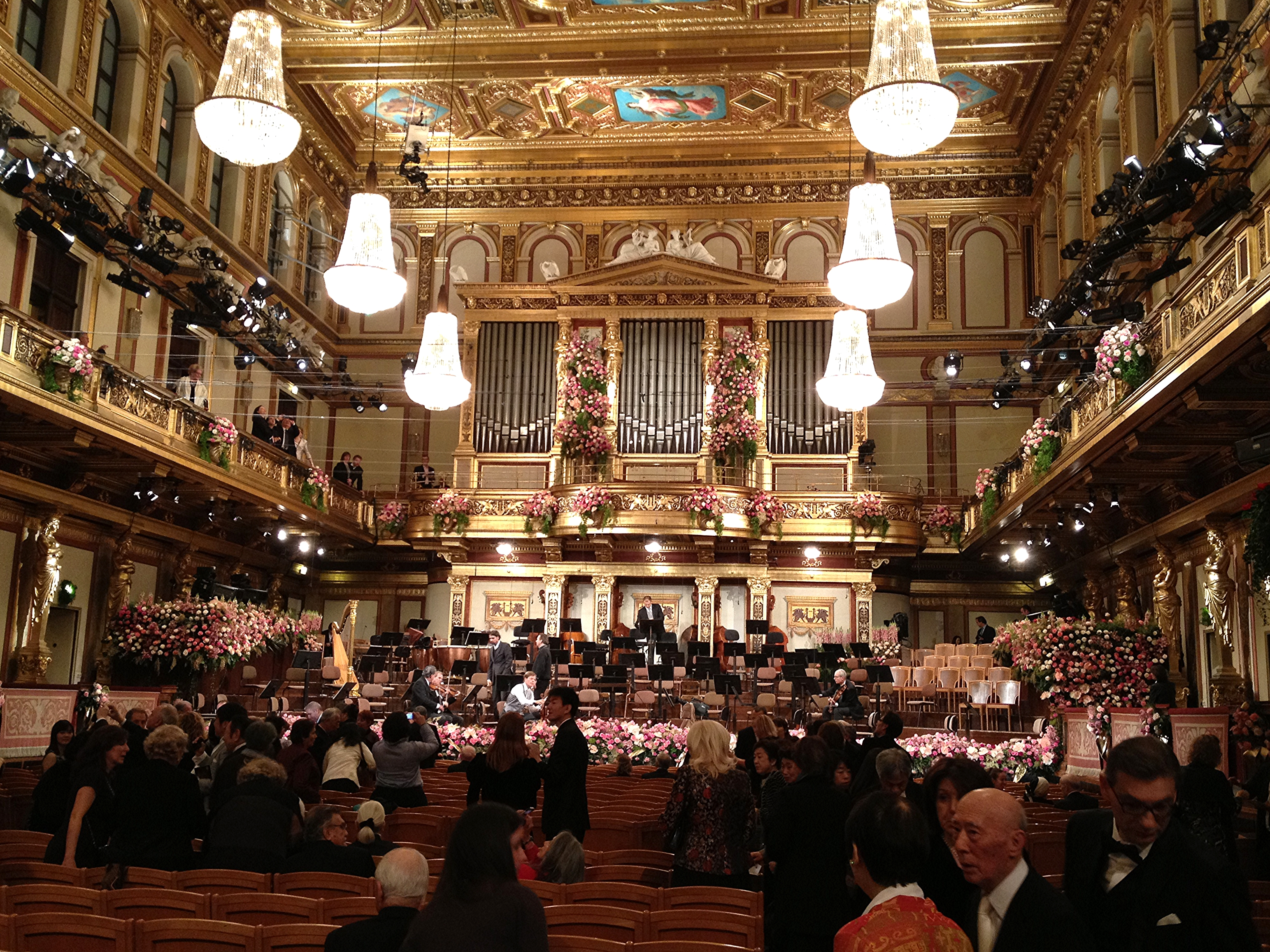 The New Year's Eve Concert 2013 at The Wiener Musikverein